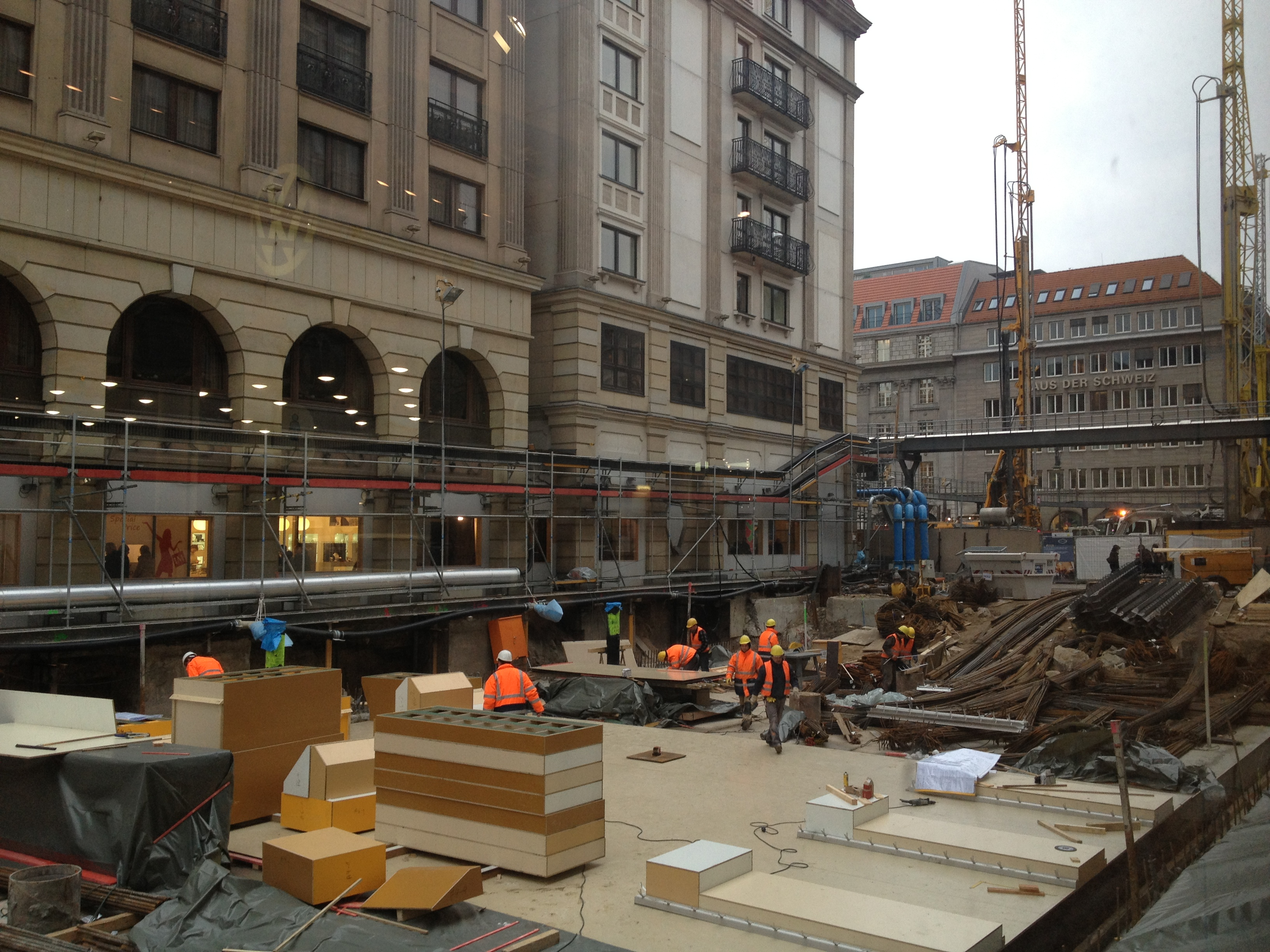 Construction site subway station Unter den Linden in Berlin, Germany